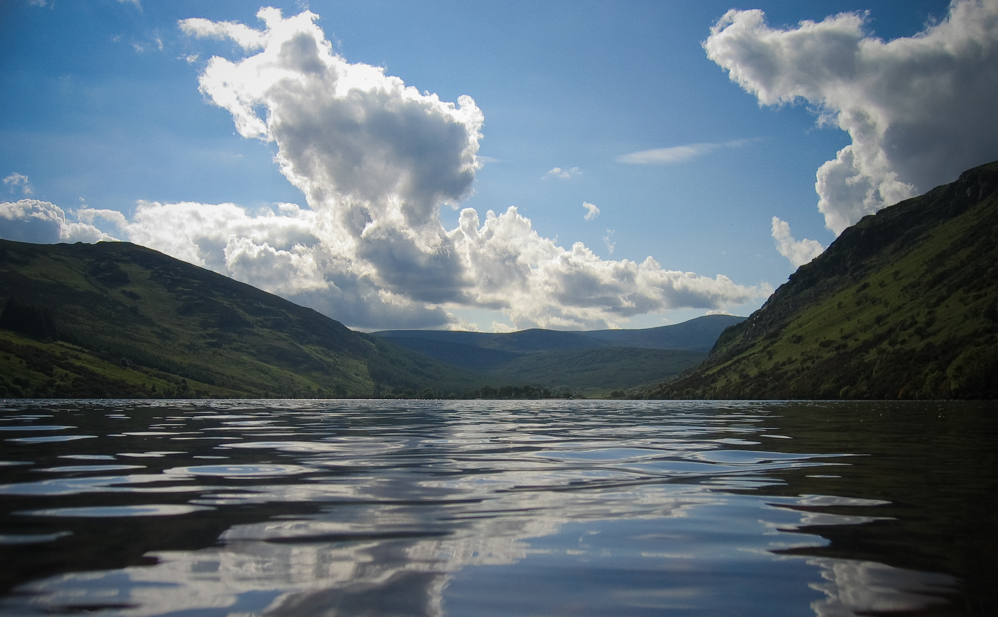 Lough Dan - reflections. Looking southeast over the lake from the disputed right-of-way